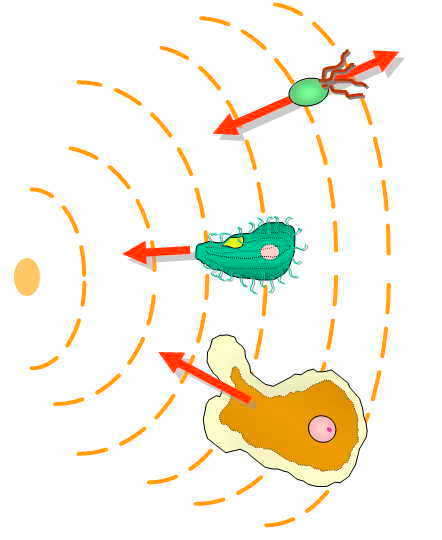 Chemotaxis of prokaryotic and eukaryotic cells.